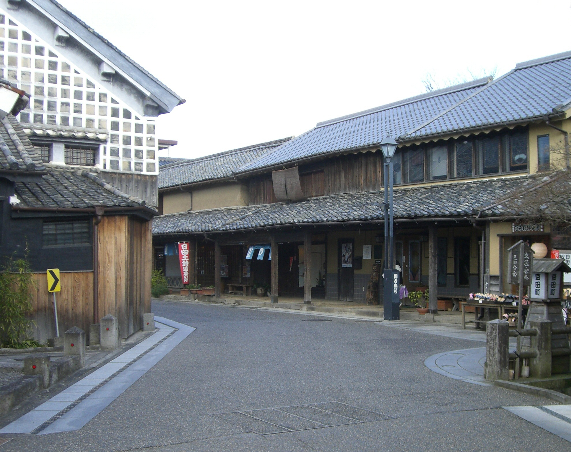 大分県日田市豆田町の古い町並み （An old street in Mameda, Hita-city, Ohita prefecture, Japan)